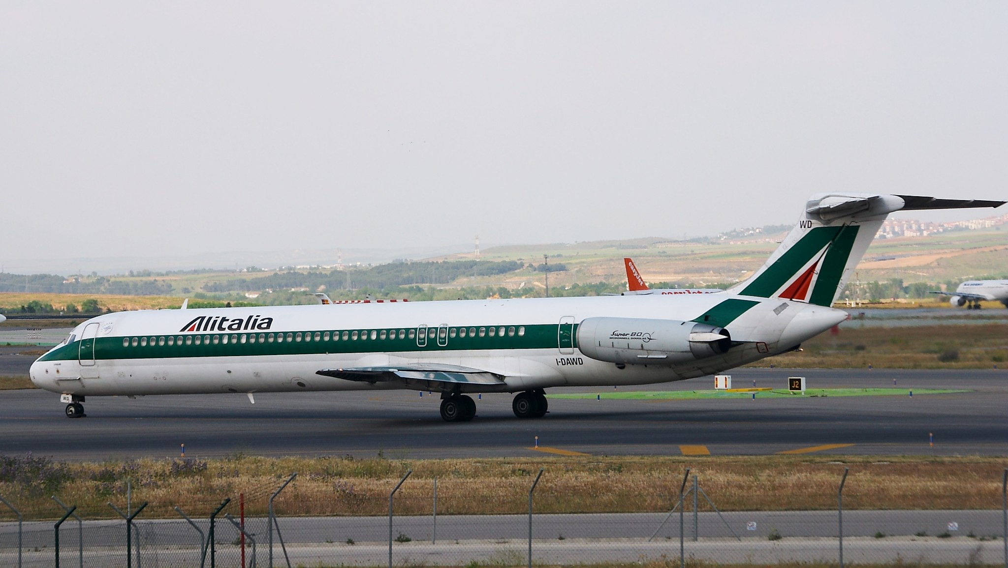 A McDonnell Douglas MD-82 (DC-9-82) aircraft (I-DAWD; cn 49199/1143; Catanzar) of Alitalia, equipped with Pratt and Whittney JT8D-217A engines, taxiing to take off at Madrid-Barajas Airport.